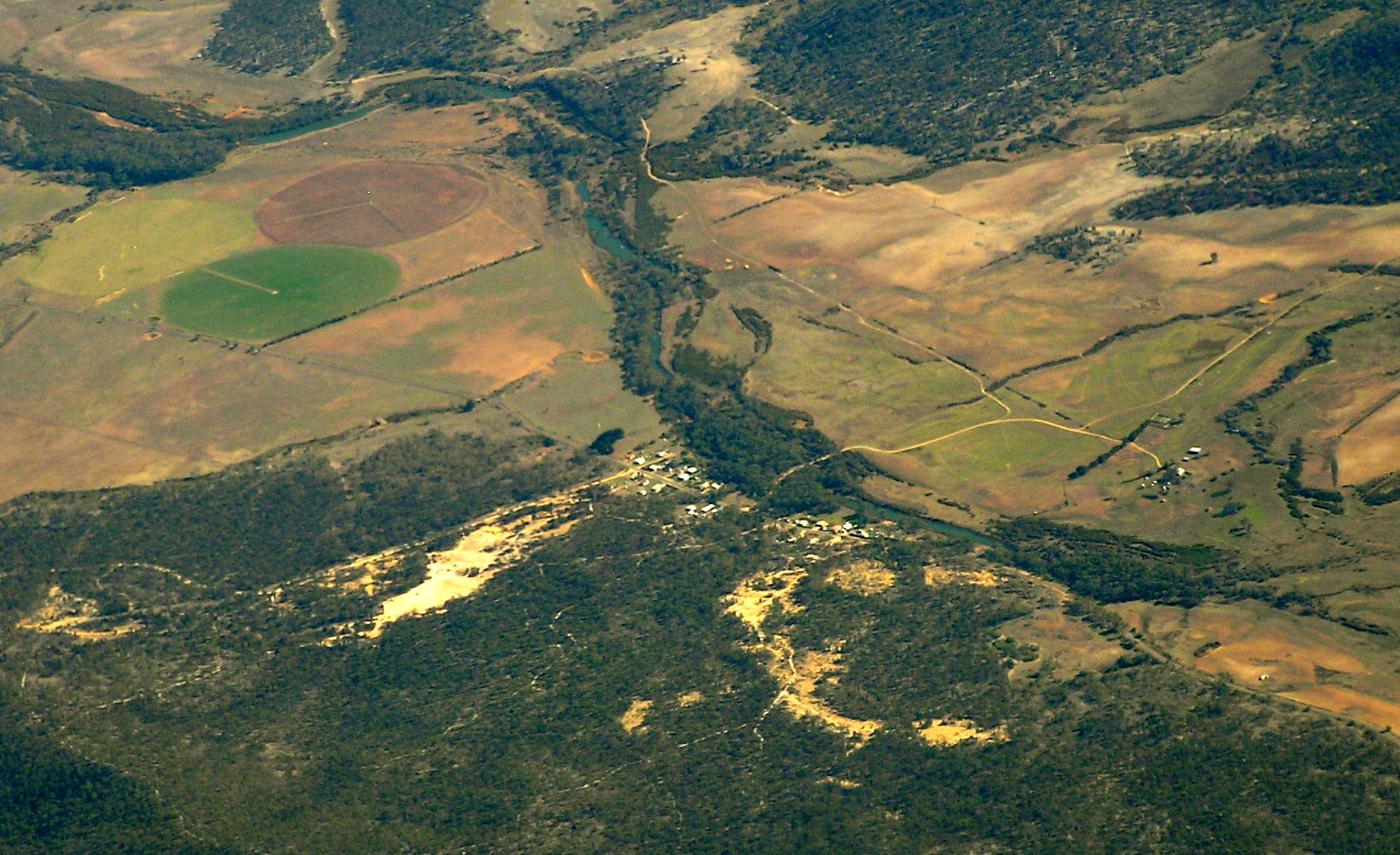 Aerial photo of Royal George Tasmania from east. St Pauls River runs across